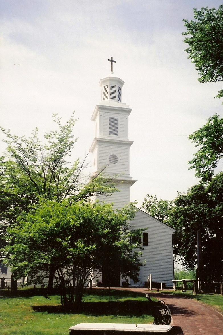 St. John's Episcopal Church is the oldest church in Richmond, built in 1741 and giving its name to the Church Hill district. St. John's was formed from several earlier churches. It was the site of two important conventions in the period leading to the American Revolutionary War, and is most famous as the location where Patrick Henry gave his closing speech at the Second Virginia Convention with the famous quotation "Give me liberty or give me death." In March 1775, the Second Virginia Convention began in this church. The President of the Convention was Peyton Randolph. Among the 120 delegates were Thomas Jefferson and George Washington. Other notable delegates were Benjamin Harrison, Thomas Mann Randolph, Richard Bland, Richard Henry Lee and Francis Lightfoot Lee. Debate centered around the perceived need to raise a militia to resist encroachments on civil rights by the British Government under King George III. Patrick Henry, a delegate from Hanover County, rose in support of a militia and, with his fiery speech (concluding with the words "Give me liberty or give me death!"), swayed the vote. Under a Resolution offered by Richard Henry Lee, the House of Burgesses on May 15, 1776 resolved that "the delegates appointed to represent this colony in General Congress be instructed to propose to that respectable body to declare the united Colonies free and independent states." It is also notable that the Second Virginia Convention authorized Baptist chaplains to minister to soldiers, an important early step to Freedom of Religion in what became the Commonwealth of Virginia. From Wikipedia